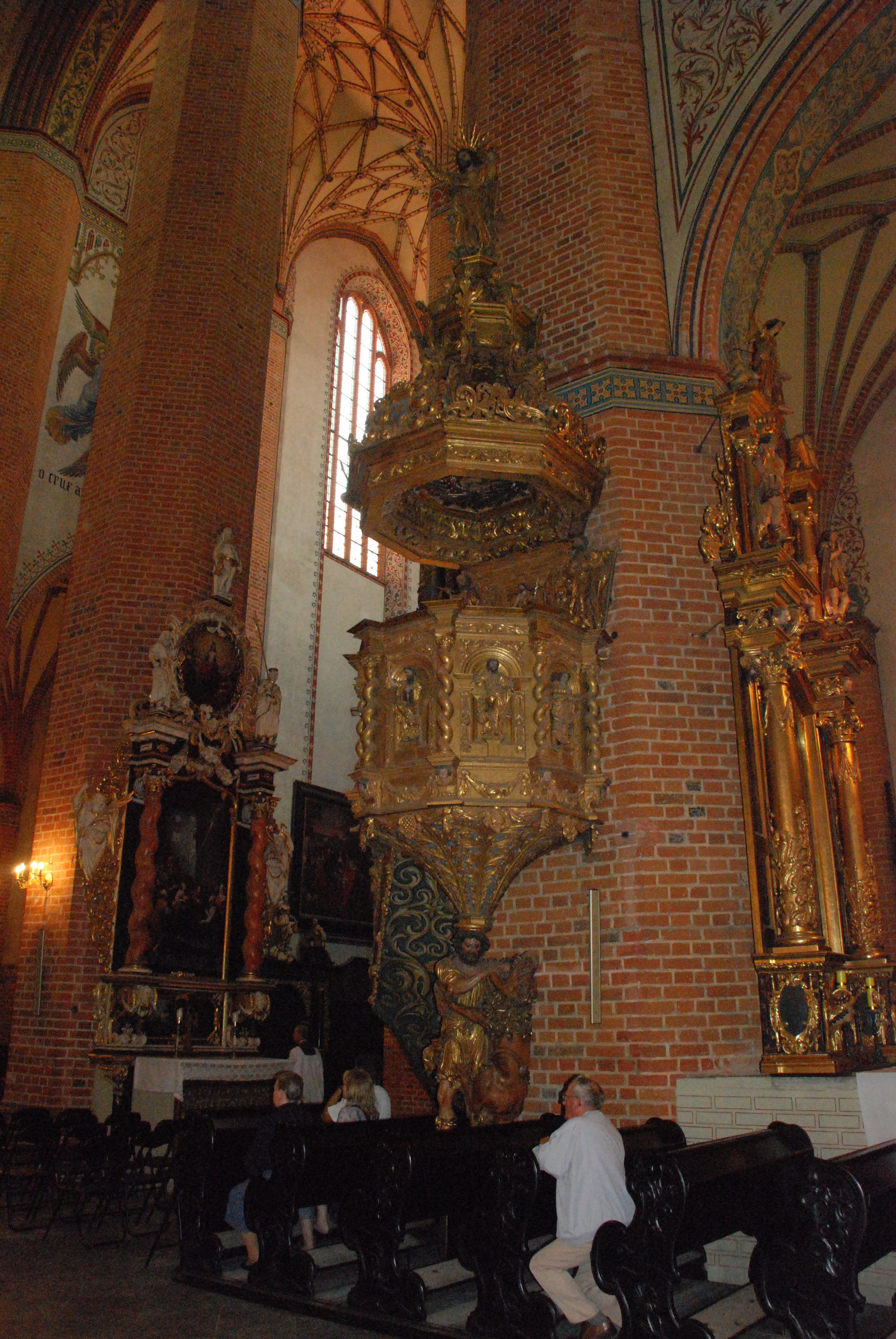 The pulpit